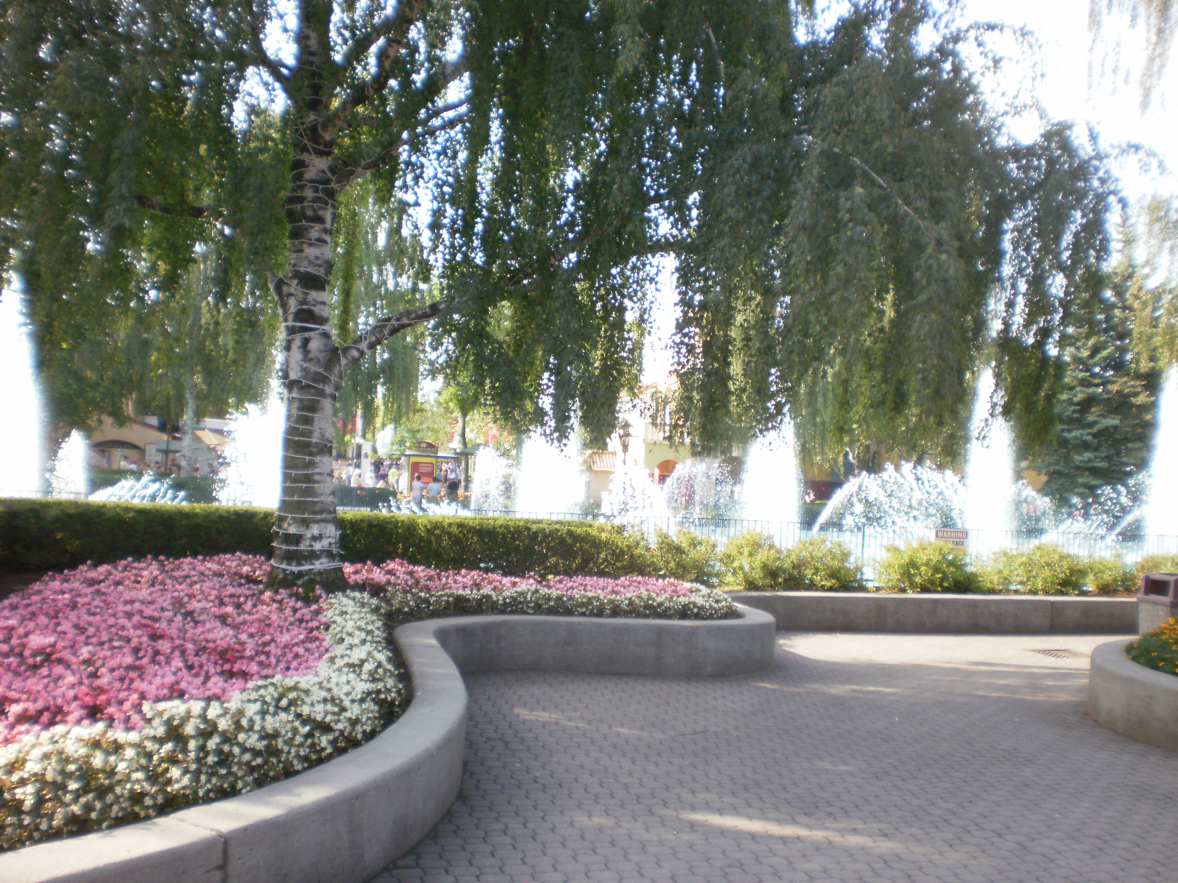 The flowerbeds in Canada's Wonderland entry section International Street. Barely visible behind the fountain are the Latin Building and Mediterranean Building.